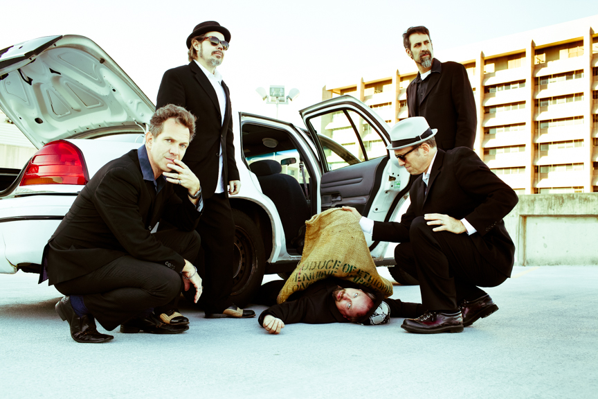 Churchwood